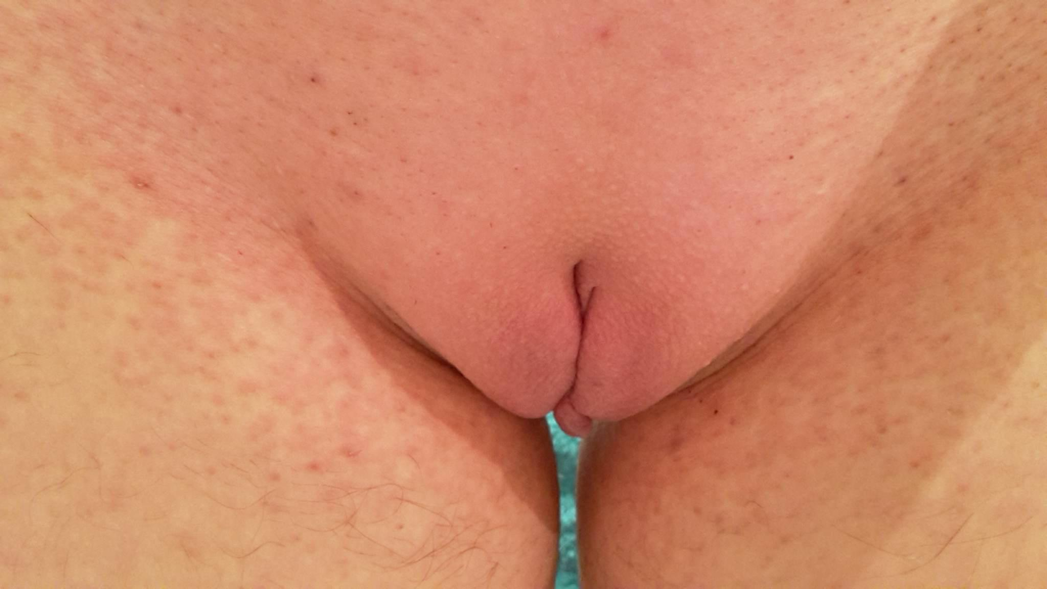 the front view of waxed vulva, external female genitalia